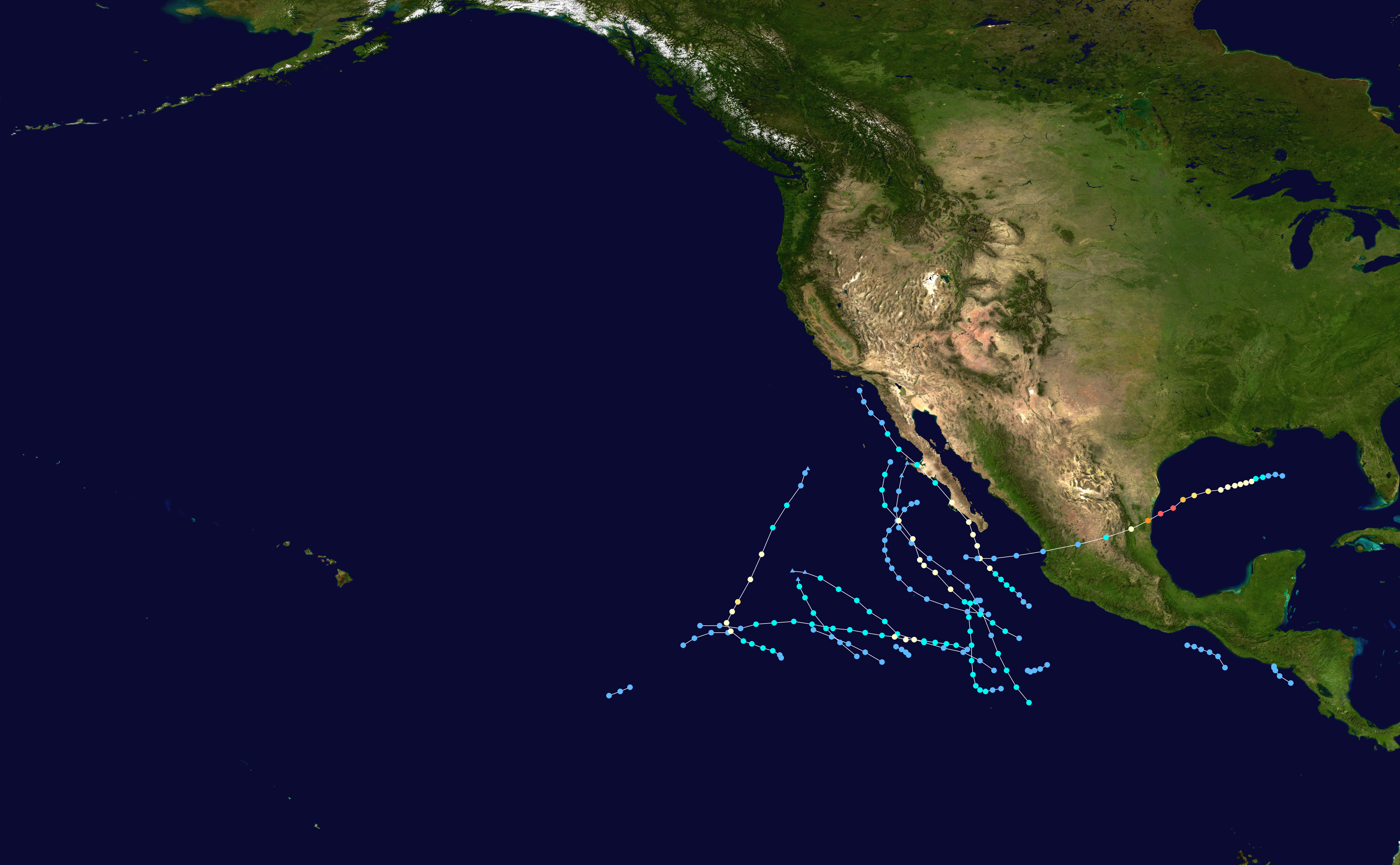 This map shows the tracks of all tropical cyclones in the 1977 Pacific hurricane season. The points show the location of each storm at 6-hour intervals. The colour represents the storm's maximum sustained wind speeds as classified in the Saffir-Simpson Hurricane Scale (see below), and the shape of the data points represent the type of the storm. Saffir–Simpson hurricane wind scale Tropical depression≤38 mph≤62 km/h Category 3111–129 mph178–208 km/h Tropical storm39–73 mph63–118 km/h Category 4130–156 mph209–251 km/h Category 174–95 mph119–153 km/h Category 5≥157 mph≥252 km/h Category 296–110 mph154–177 km/h Unknown Storm typeTropical cycloneSubtropical cycloneExtratropical cyclone / Remnant low / Tropical disturbance